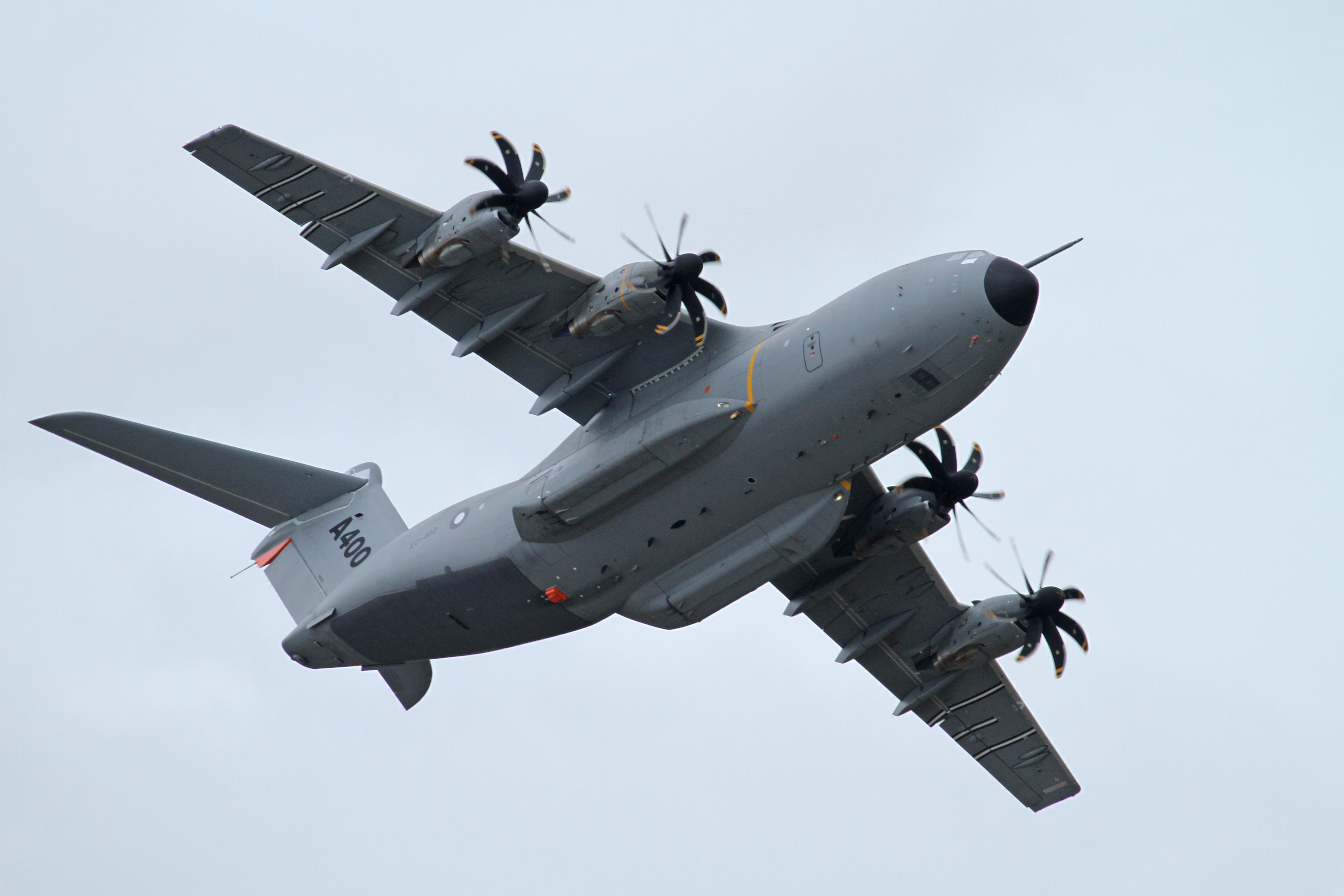 Airbus A400M in flight